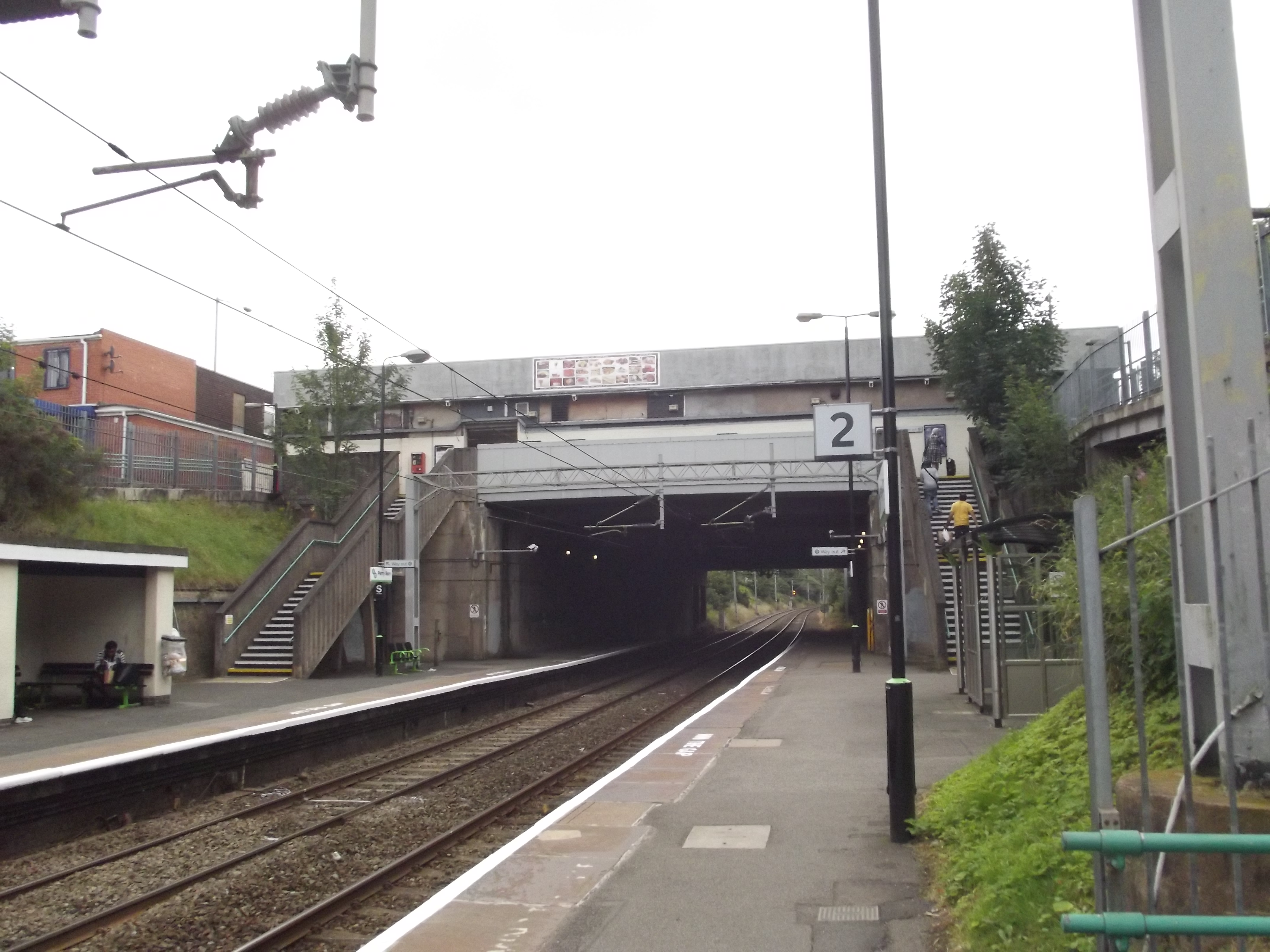 I went to Perry Barr Station in Perry Barr, before heading towards Perry Park. It is a few days before the Aviva Birmingham Grand Prix, and so I wanted to check out the park before the event (I wont be in Birmingham the day the Diamond League comes to Perry Barr). Perry Barr is on the Chase Line, and it heads towards Walsall and Rugely. The current station building dates to the 1960s. The concrete station building.